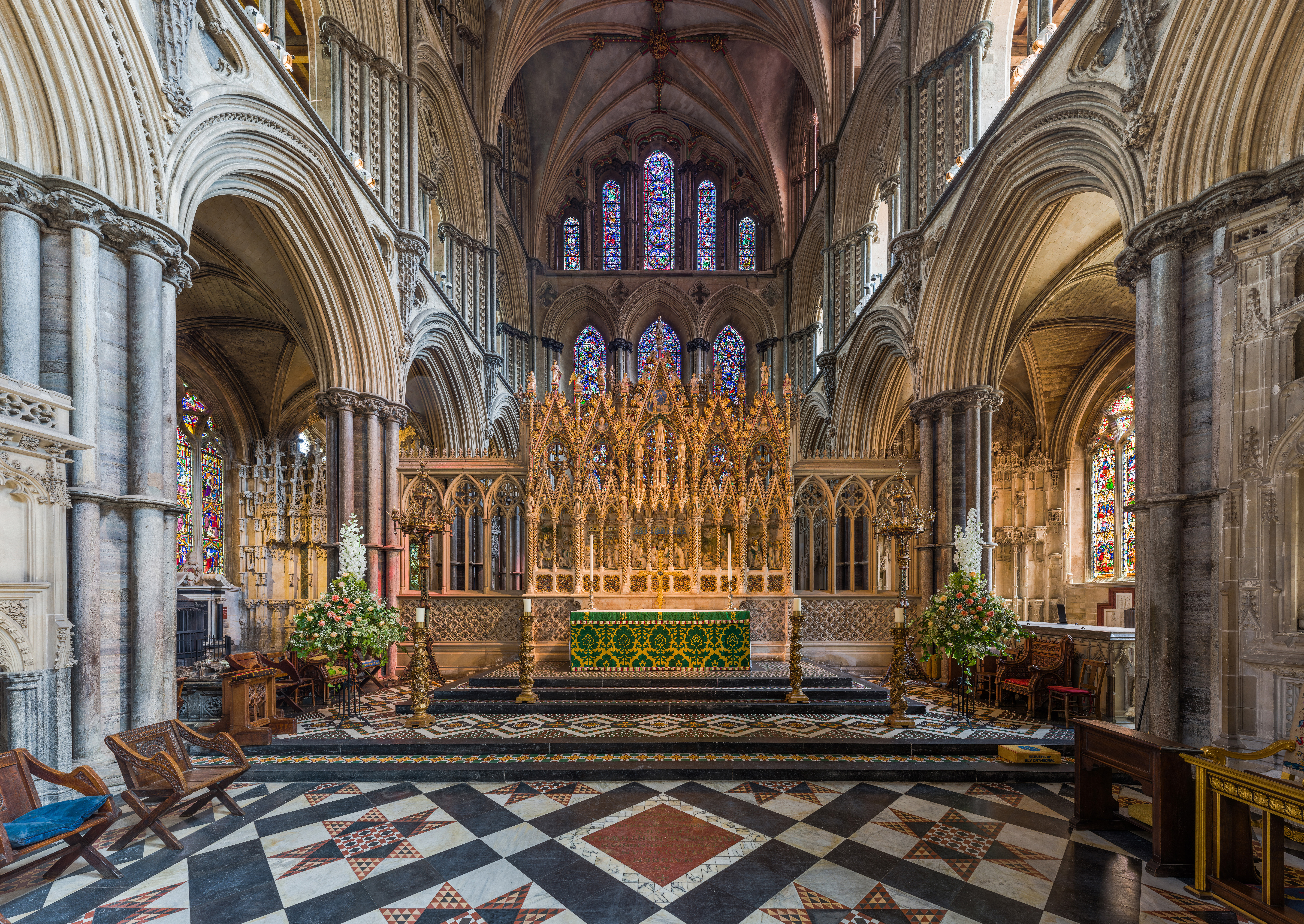 The high altar of Ely Cathedral, Cambridgeshire, England.